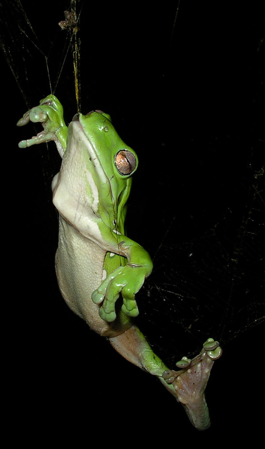 Litoria caerulea hanging in a spider web